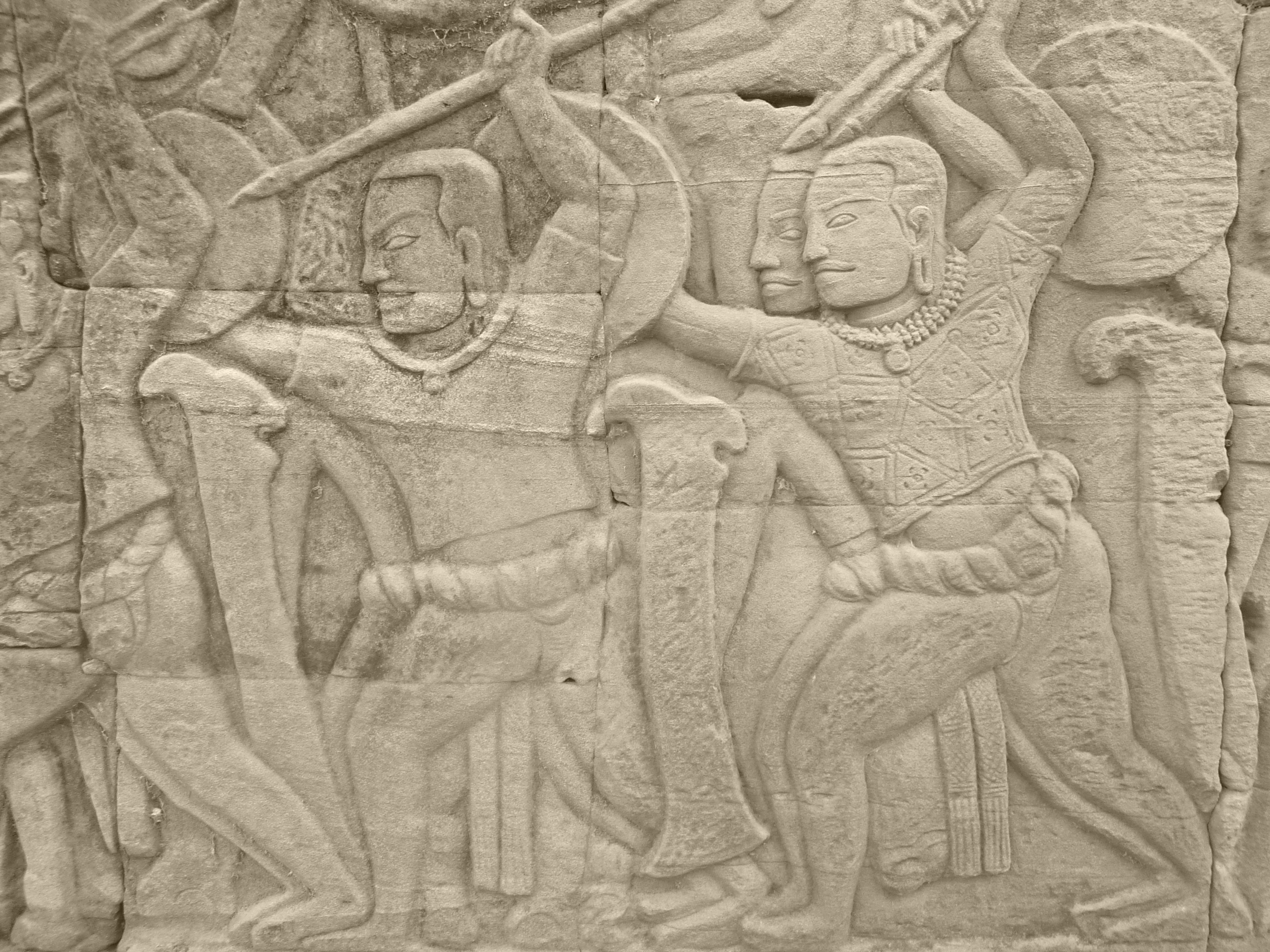 040 Battle Scenes at Bayon Photograph from the Bayon Temple at Angkor in Cambodia taken by Anandajoti.